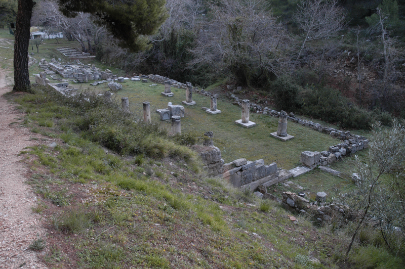 J. M. Harrington, personal digital image